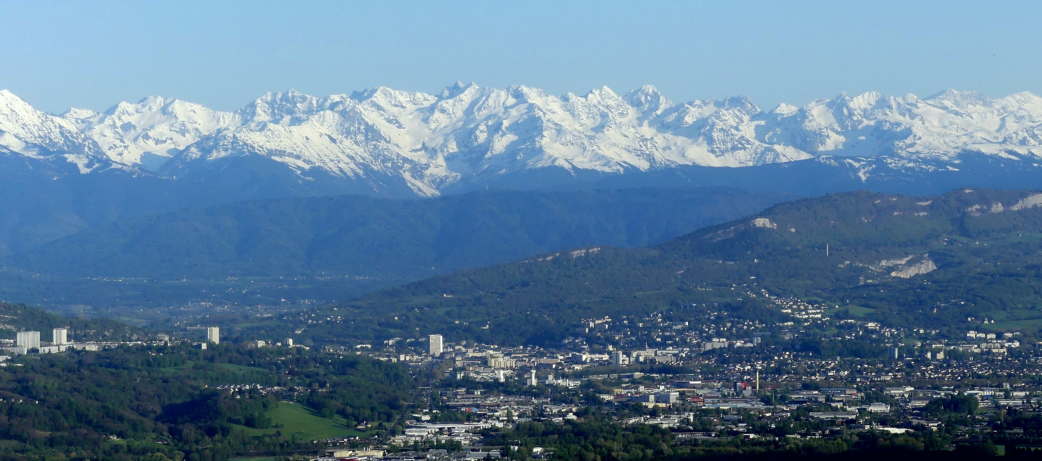 Panoramic sight, from the Mont du Chat mountain, of the city of Chambéry and the snow-covered Belledonne mountain range at the background, in Savoie, France.